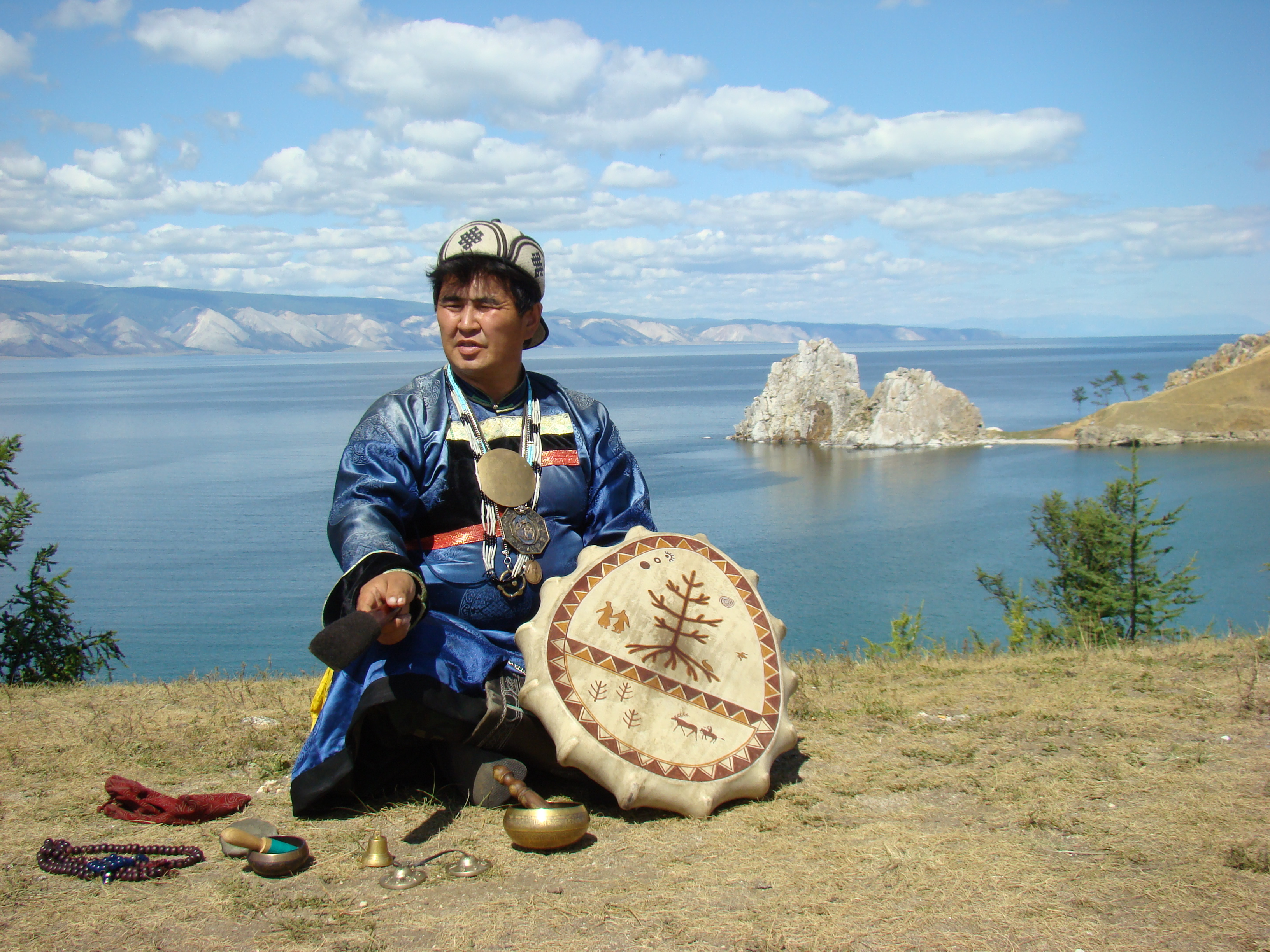 The main shaman of Olkhon - Valentin Hagdaev; Olkhon (Baikal)